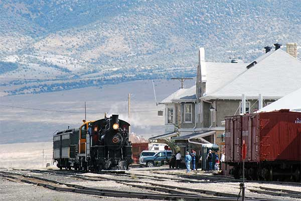 Passenger train at the Nevada Northern Railway Museum's East Ely depot, September 29, 2007. Steam locomotive #40 leads the train. View to east. Uploaded by Mark Hufstetler, photographer, and released under Creative Commons license (with attribution).